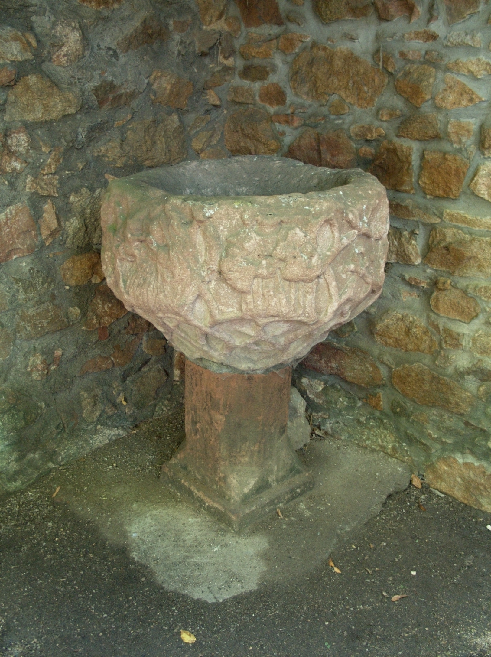 Baptistery in the ruins of the convent church at Heiligenberg near Jugenheim, Bergstraße, Germany.